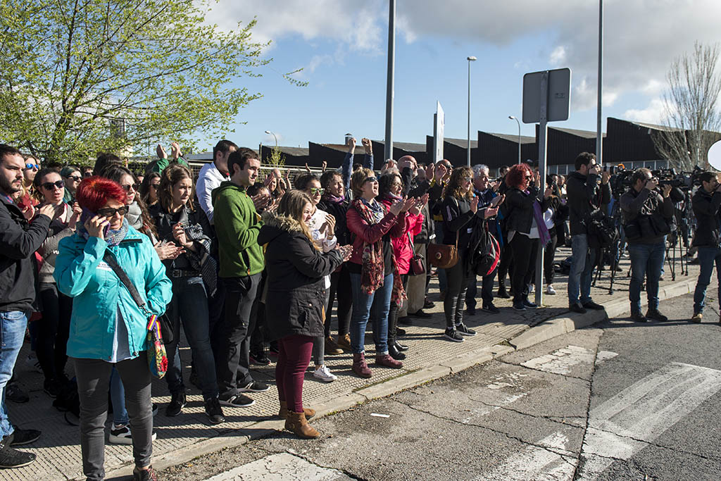 Solidarity from Navarre with the youth prosecuted in the Altsasu incident; opposite Madrid's Audiencia Nacional